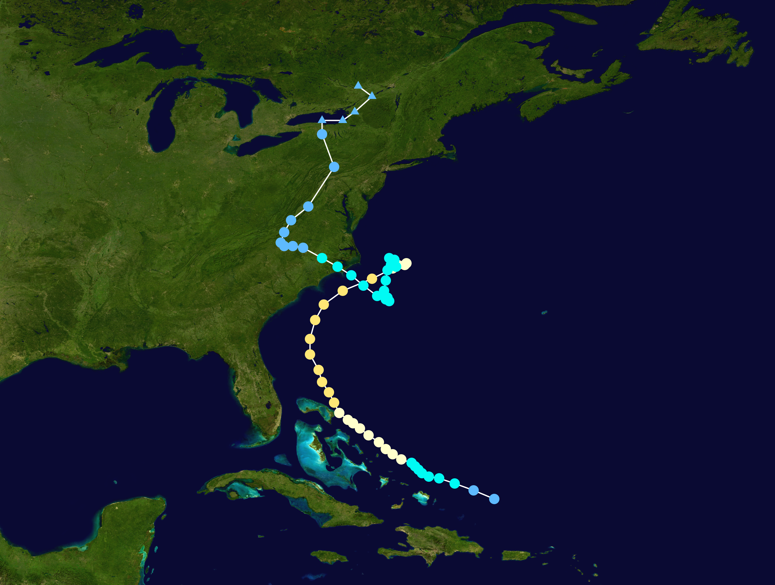 Track map of Hurricane Dennis of the 1999 Atlantic hurricane season. The points show the location of the storm at 6-hour intervals. The colour represents the storm's maximum sustained wind speeds as classified in the Saffir–Simpson scale (see below), and the shape of the data points represent the nature of the storm, according to the legend below. Saffir–Simpson scale Tropical depression≤38 mph≤62 km/h Category 3111–129 mph178–208 km/h Tropical storm39–73 mph63–118 km/h Category 4130–156 mph209–251 km/h Category 174–95 mph119–153 km/h Category 5≥157 mph≥252 km/h Category 296–110 mph154–177 km/h Unknown Storm type Tropical cyclone Subtropical cyclone Extratropical cyclone / Remnant low / Tropical disturbance / Monsoon depression